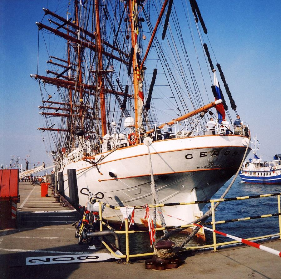 The "Sedov" in Cuxhaven harbor (2004-08-17). Stitched from two 35 mm images. Provided under the GFDL.